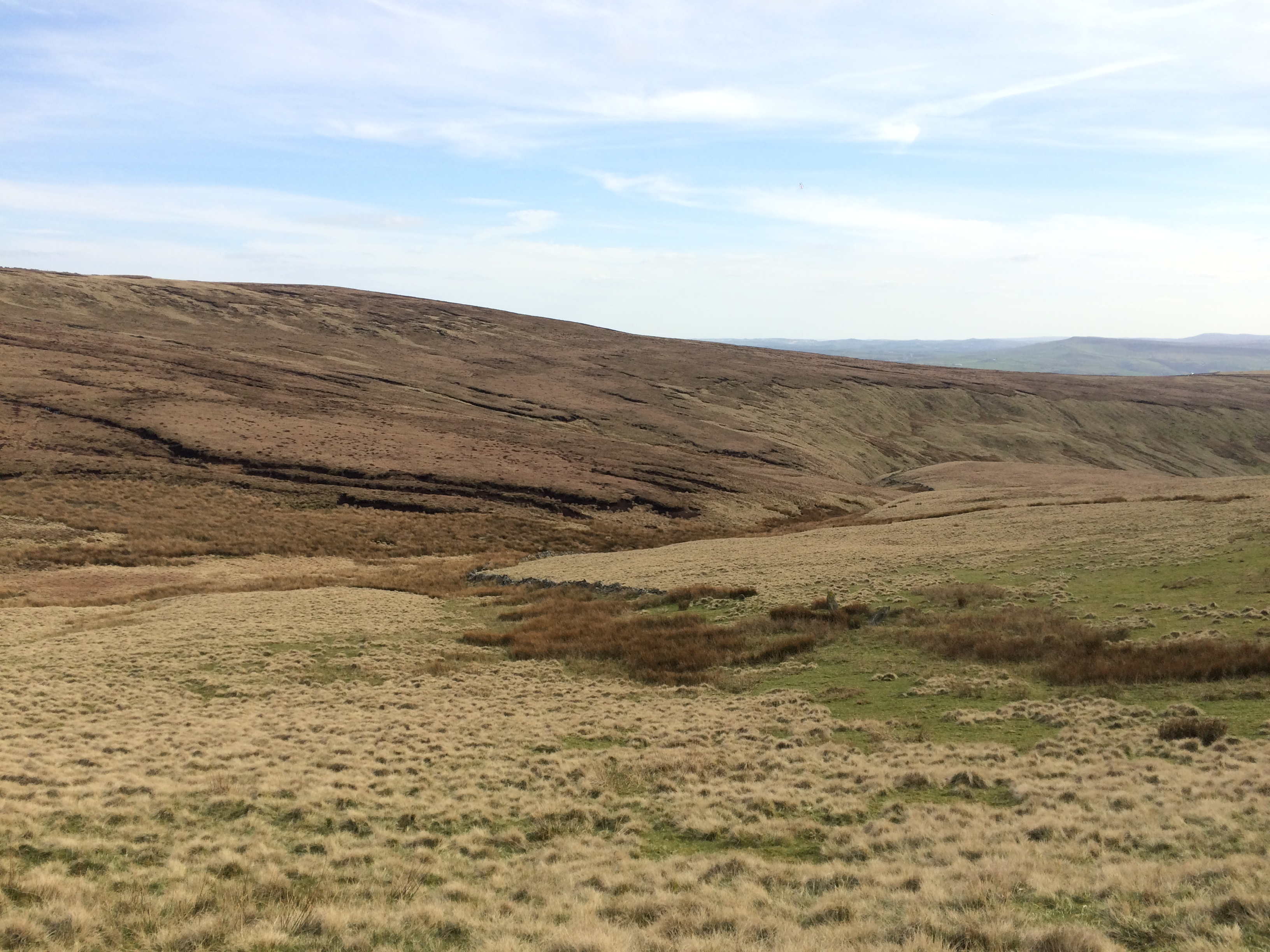 The source of the River Sett, close to Edale Cross in the moorlands surrounding Kinder Scout, Derbyshire, UK.